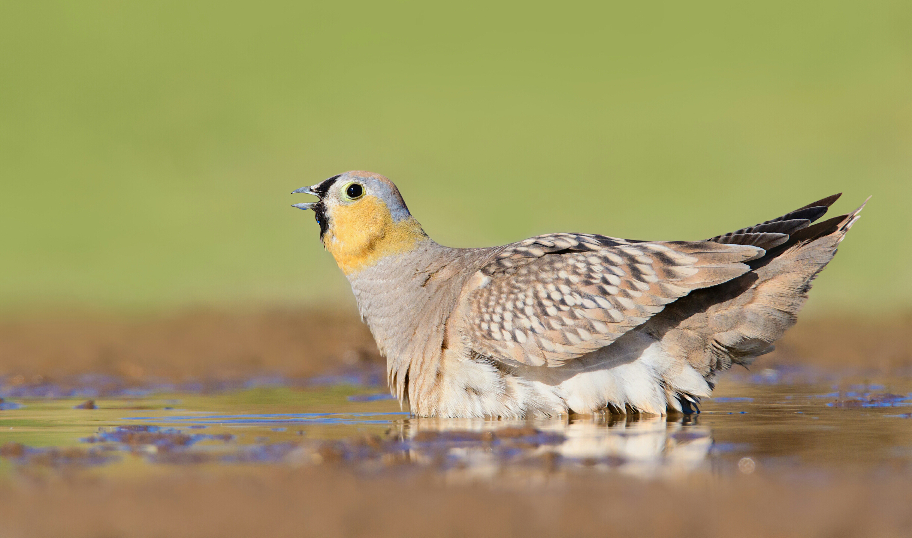 Crowned sandgrouse in Shirahmad wildlife refuge of Sabzevar, Iran